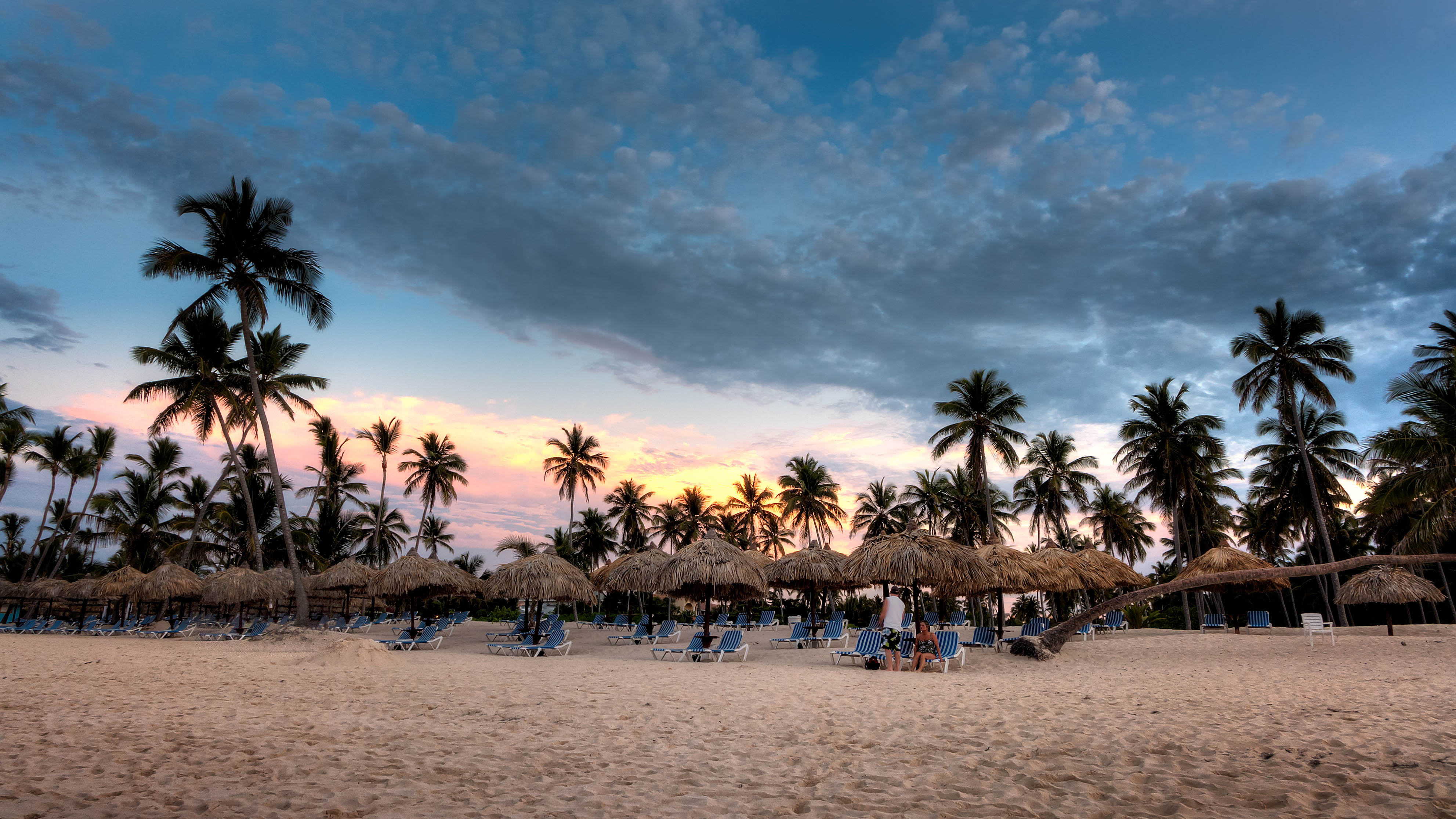 The sun sets over the Dominican Republic while walking on the beach in Bavaro, near Punta Cana.